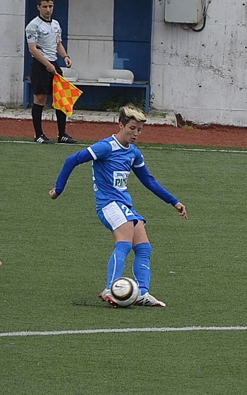 Esra Erol for Konak Belediyespor in the 2013-14 season